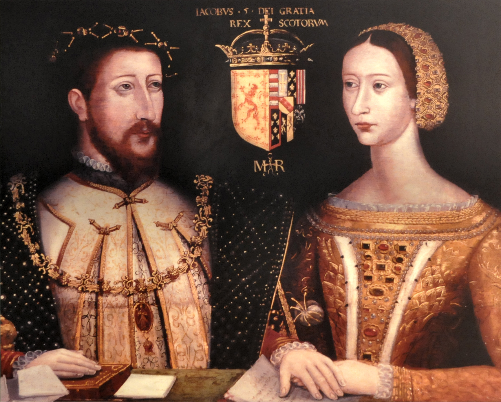 Double portrait of James V of Scotland and Mary of Guise